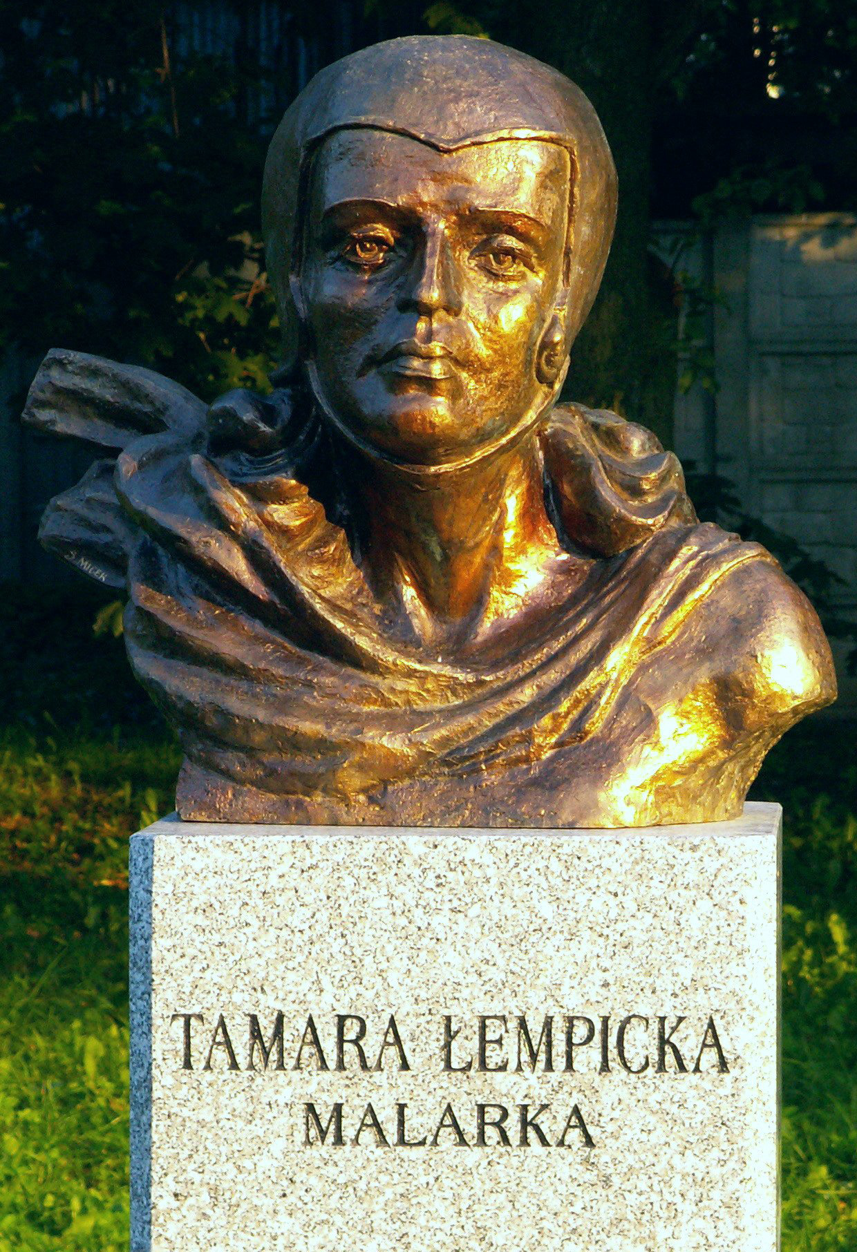 Sławomir Micek, Bust of Tamara Łempicka in Celebrity Alley in Kielce (Poland), cropped version